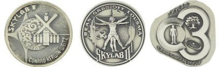 Photo of the Robbins Medallions made for Skylab missions. These medallions are presently owned by former NASA worker Phil Konstantin.